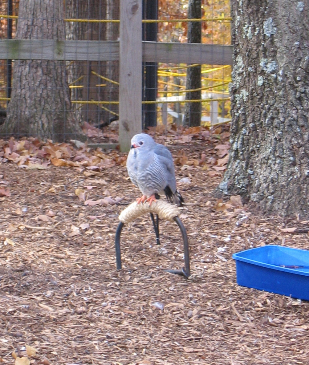 Photograph of Lizard Buzzard. Taken by Nathan Barlow at the Wild Bird Sanctuary in St. Louis, MO. Believed to be the only example of this species in captivity in North America.